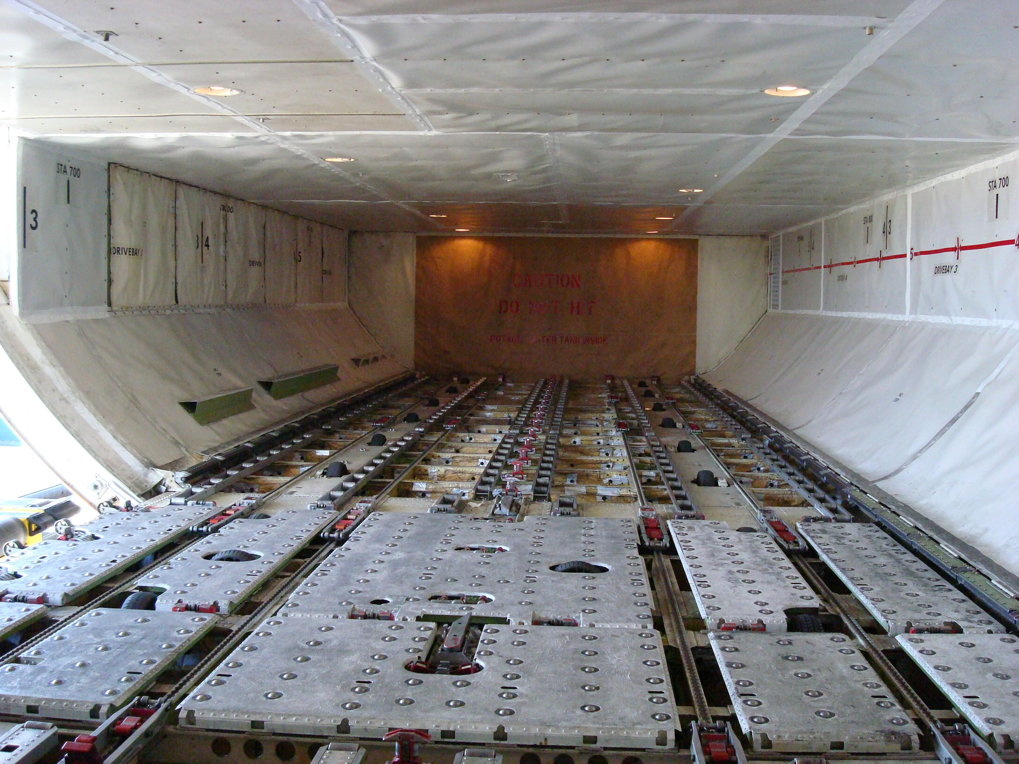 747 Front cargo compartment, looking aft